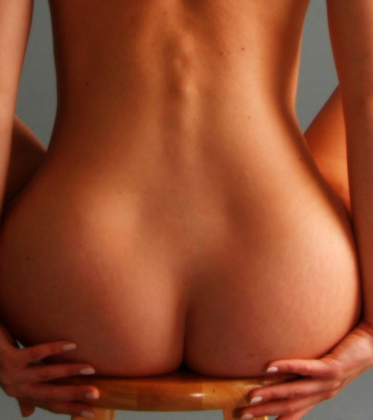 Back view of a sitting female with the dimples of Venus visible.